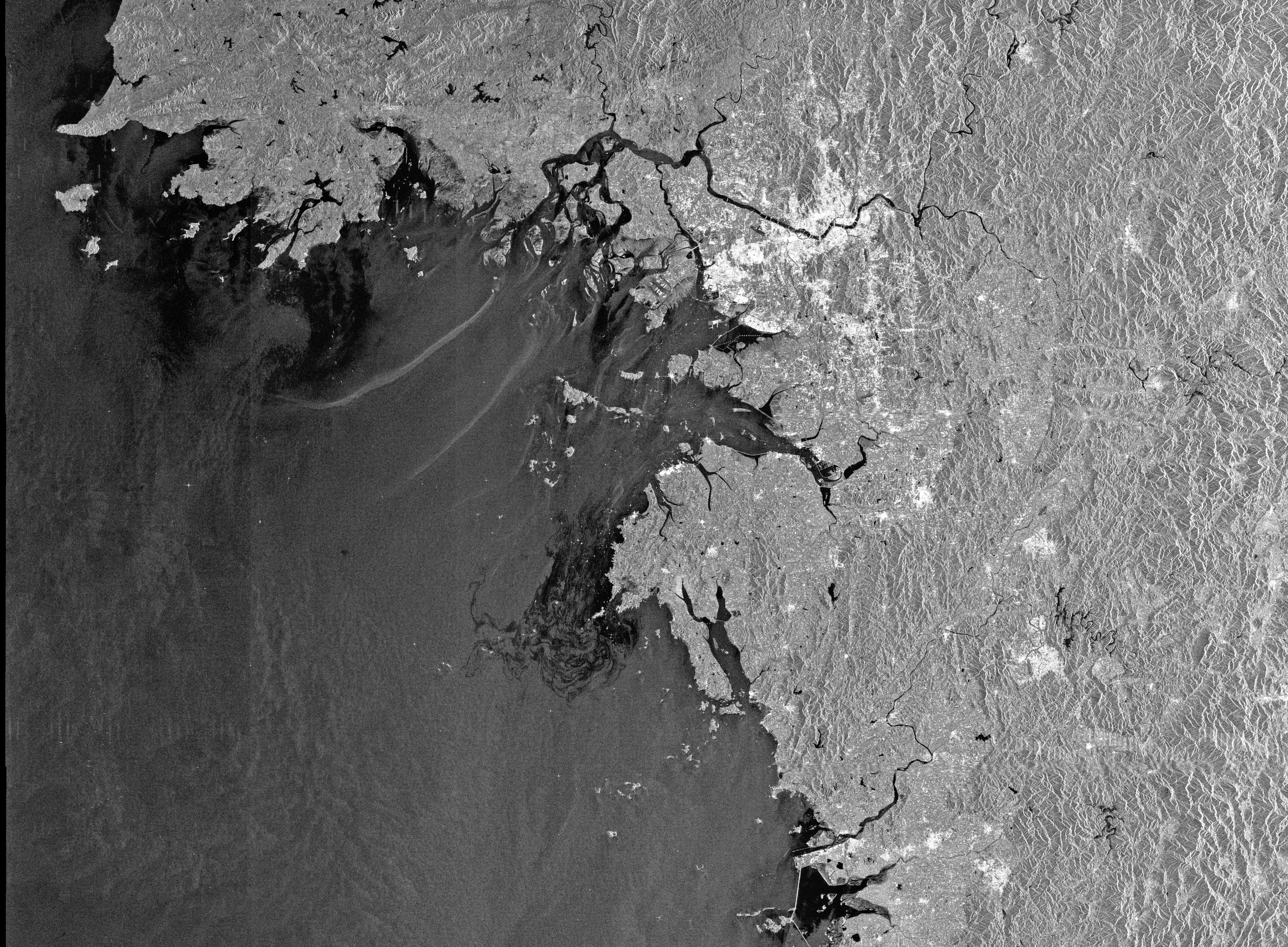 2007 Korea oil spill